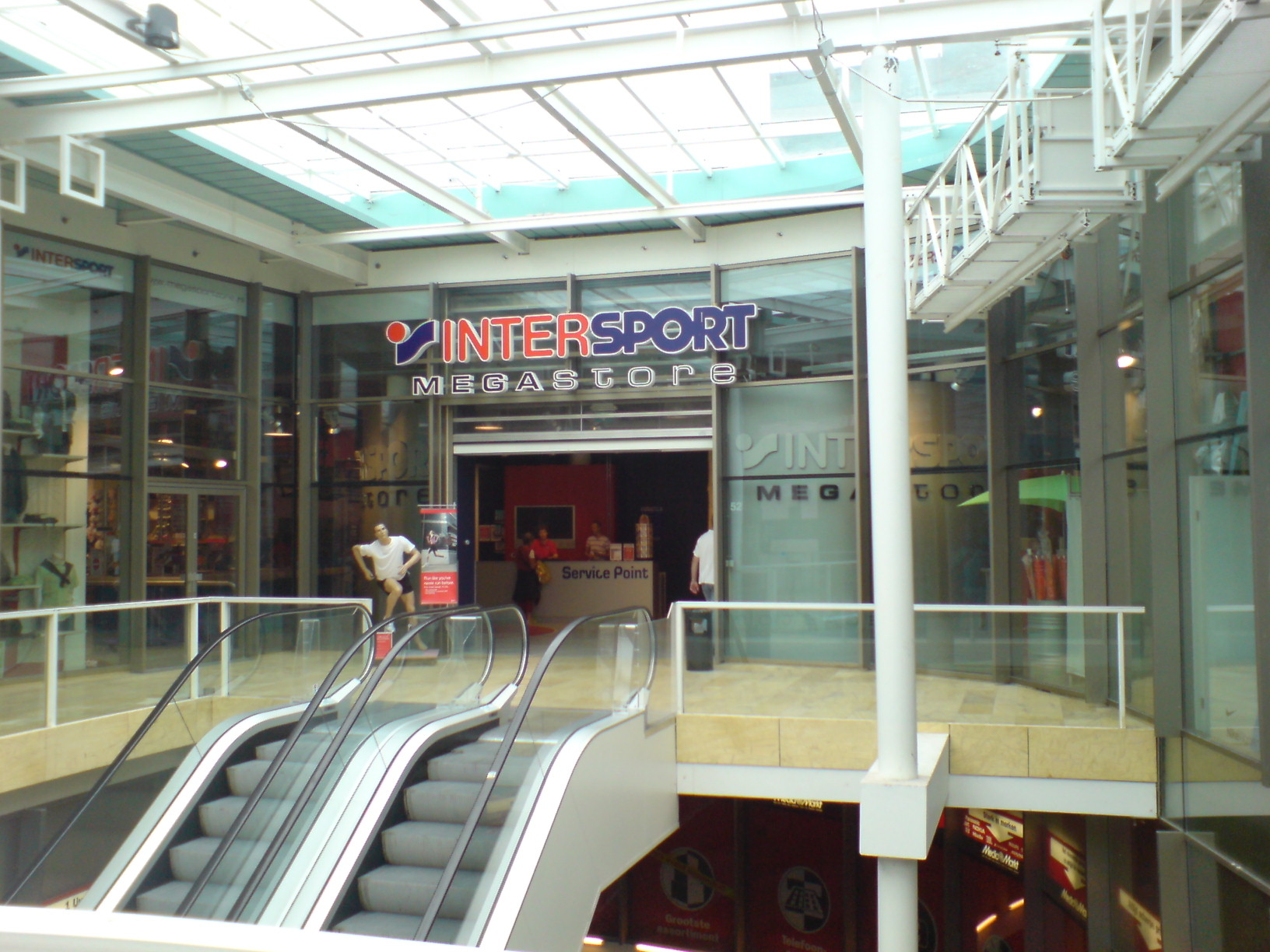 An Intersport Megastore in Groningen, the Netherlands